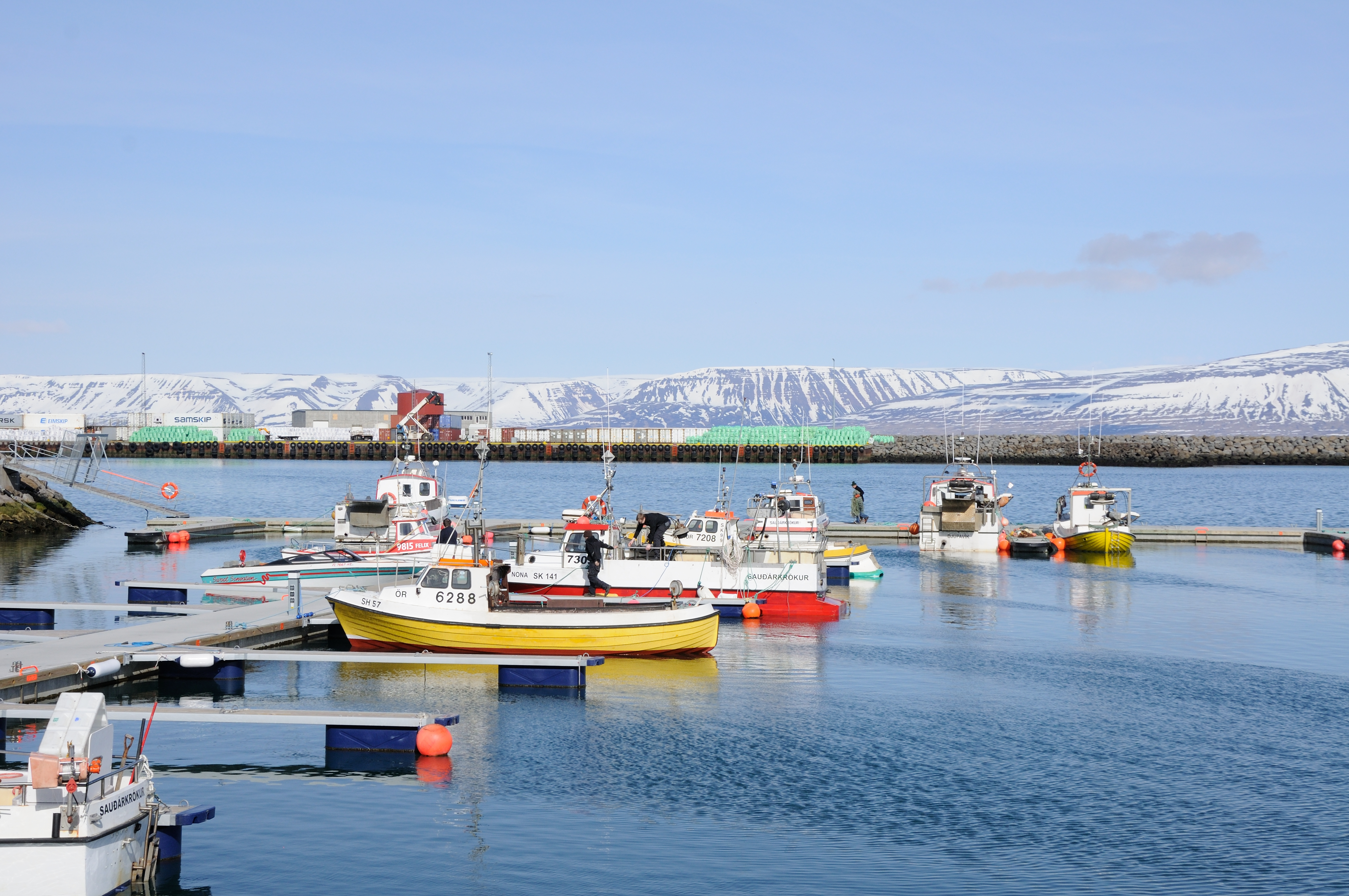 Iceland, harbour of Sauðárkrókur